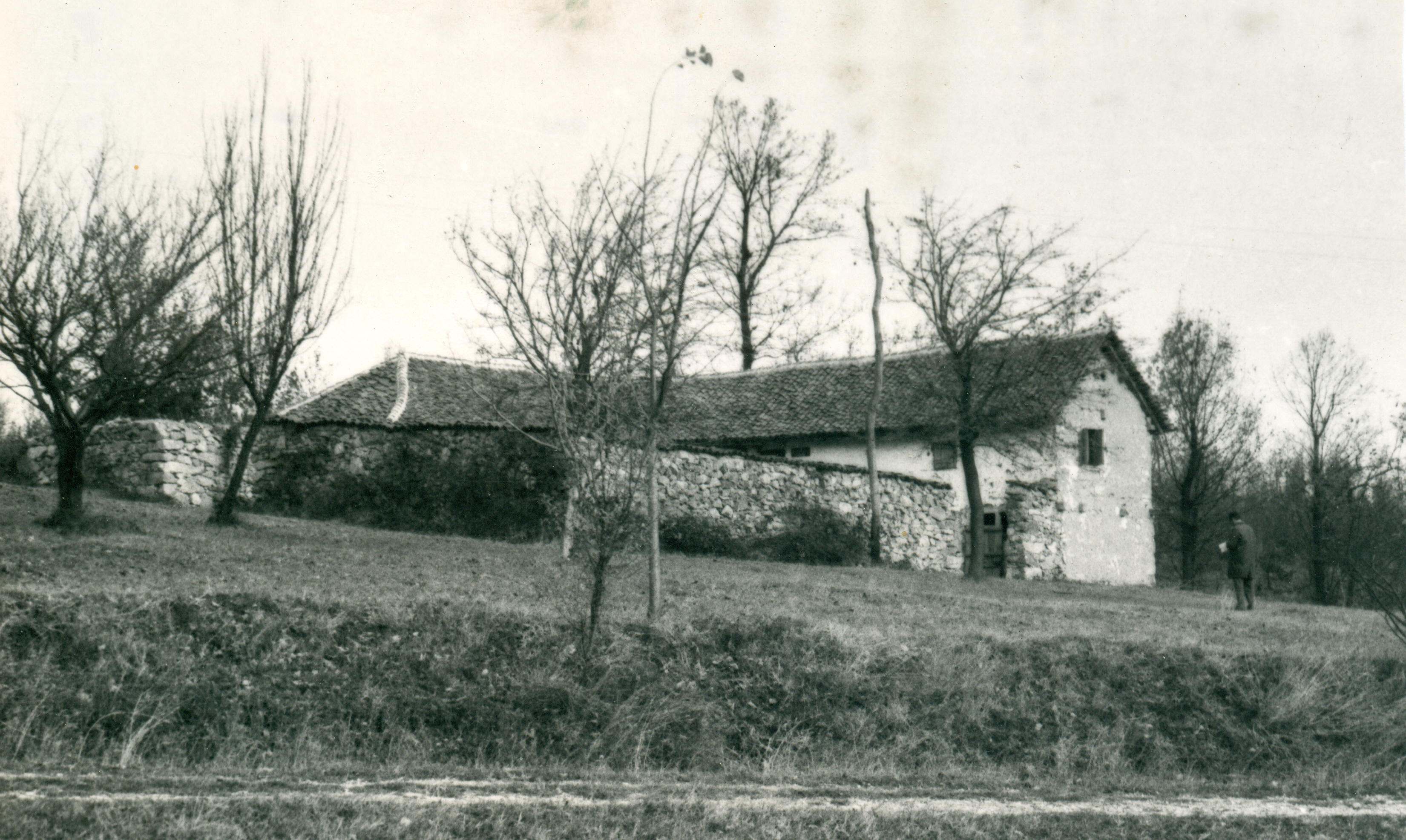 Headquarter of the Krajina Partisan Detachment in Stevanske livade near Sikole, Negotin Srpski (latinica): Štab Krajinskog partizanskog odreda na Stevanskim livadama kod sela Sikole u opštini Negotin